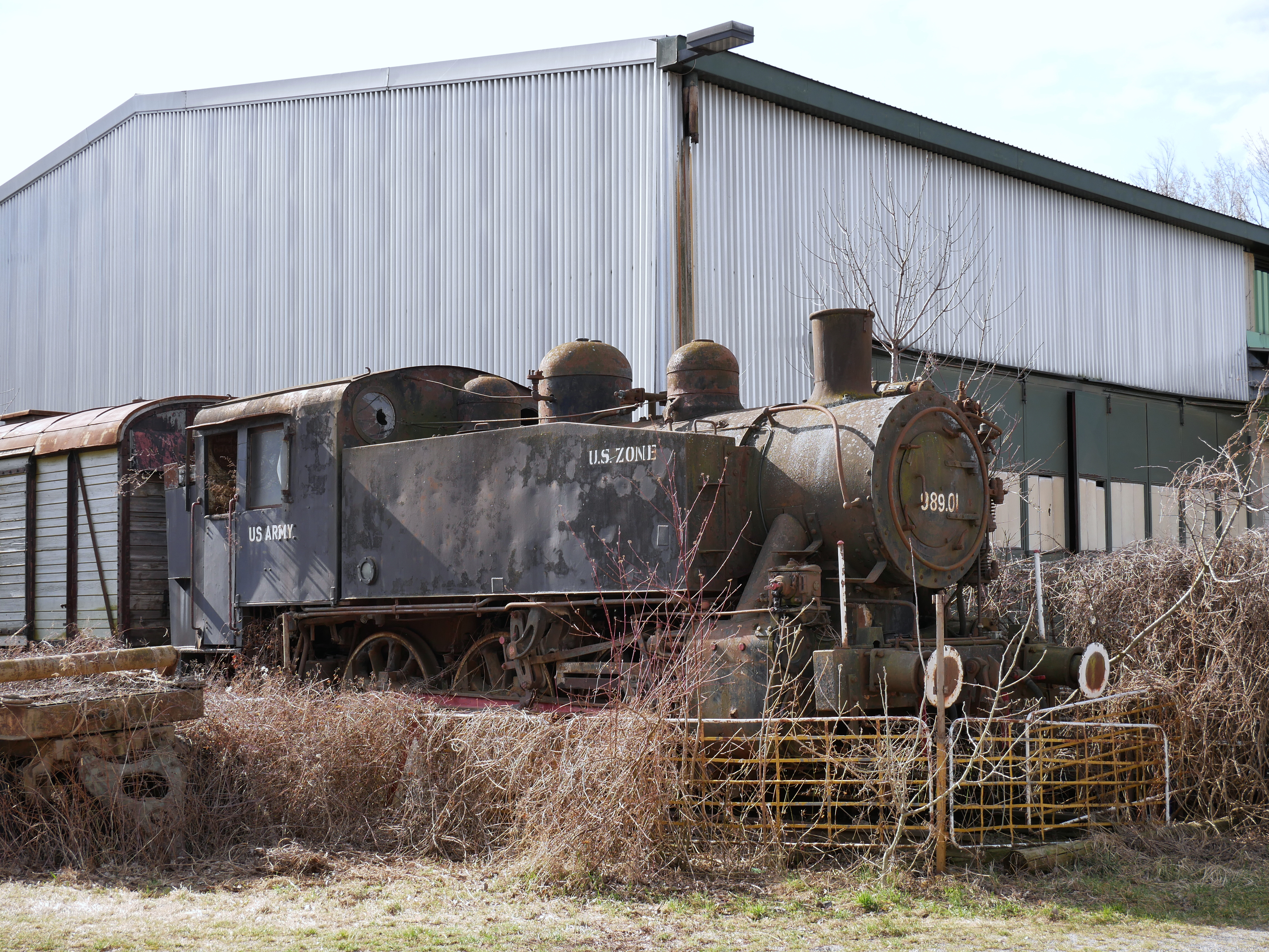 Former works locomotive of Siegendorf sugar refinery ex ÖBB 898.01, preserved in a private collection of vehicles in Probstdorf.